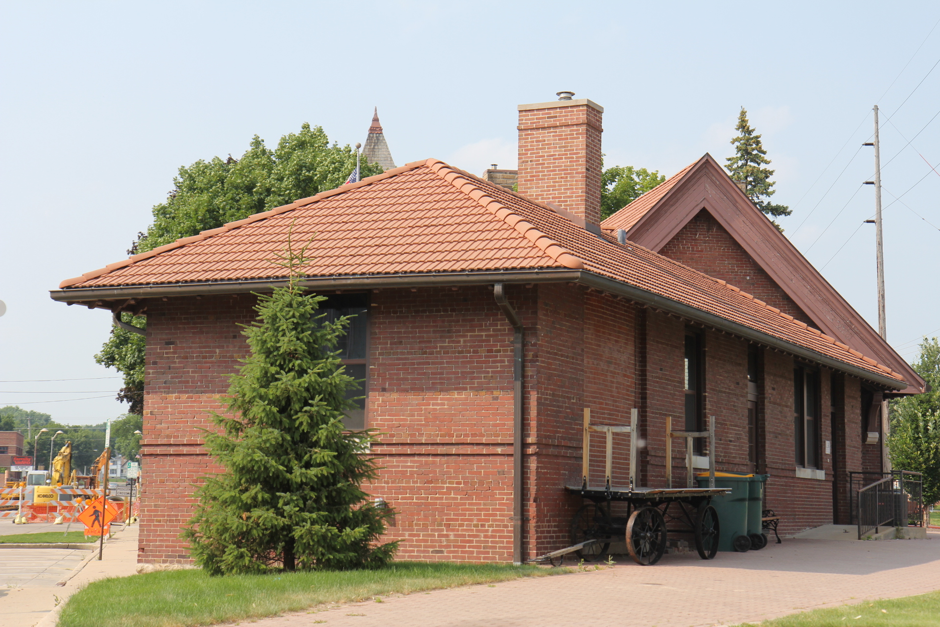 The side of the train depot in Beaver Dam, Wisconsin. It is listed on the National Register of Historic Places as the Chicago, Milwaukee and St. Paul Railway Company Passenger Depot.